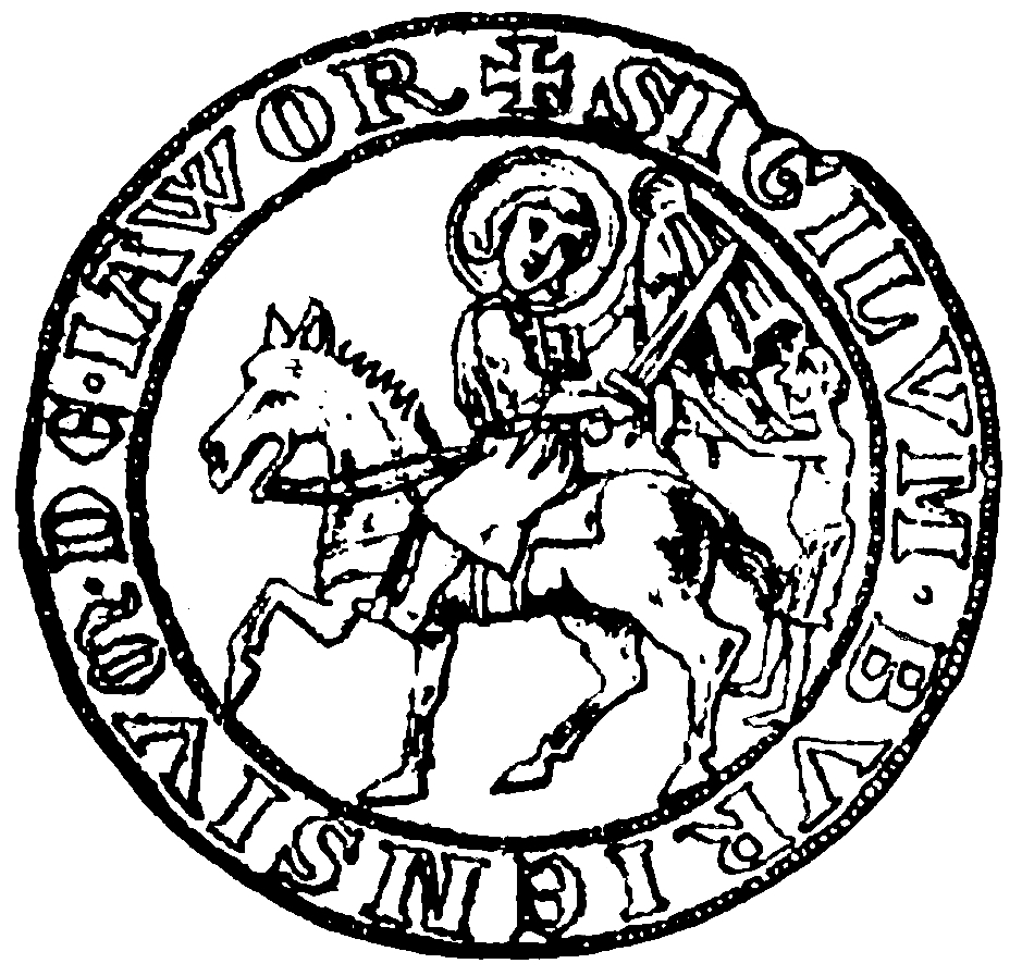 Otto Koischwitz, "Jauer : ein Wegweiser durch die Heimat und ihre Geschichte", Jauer 1930